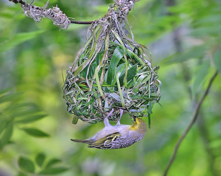 Village Weaver